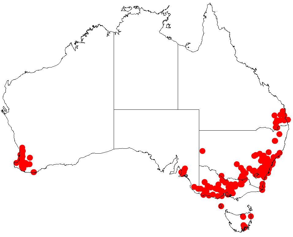 Acacia decurrens occurrence data from Australasian Virtual Herbarium downloaded from on 8 December 2018